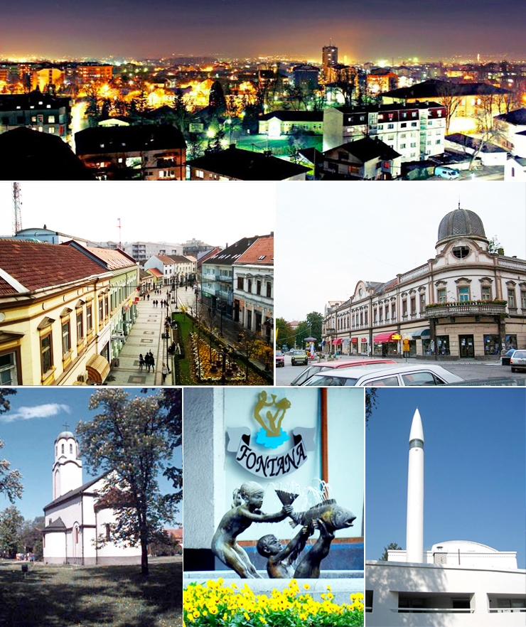 Brčko collage: Brčko panorama at night, Brčansko šetalište (walkway), Brčko center, Brčko church, Brčko symbol of the city, Brčko mosque